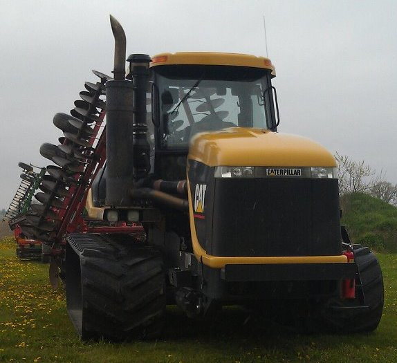 Caterpillar Challenger 75E rubber tracked agricultural tractor pulling a disc harrow, cultipacker, and other tillage instruments.